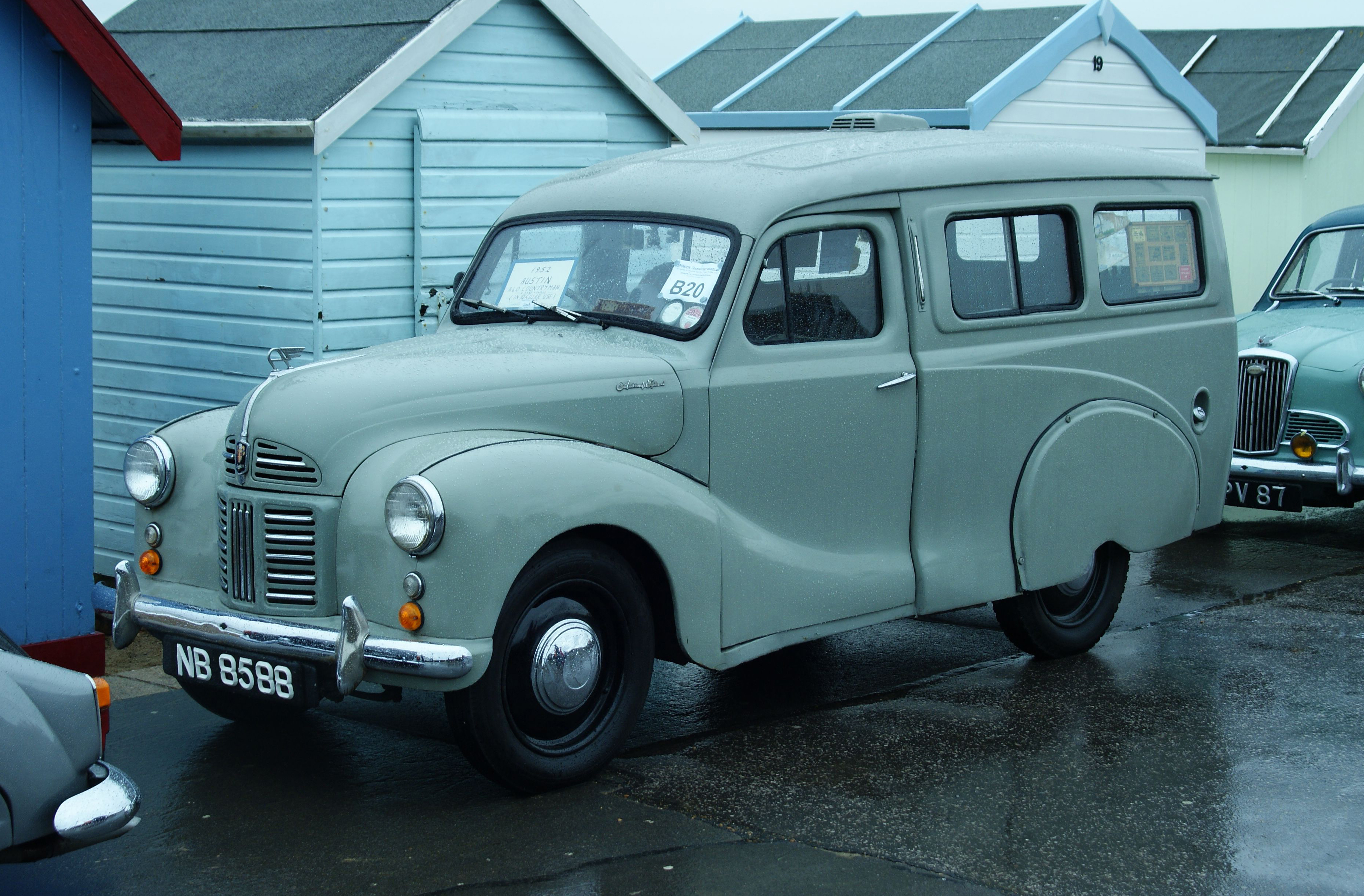 1952 Austin A40 "Devon" Countryman in Felixstowe